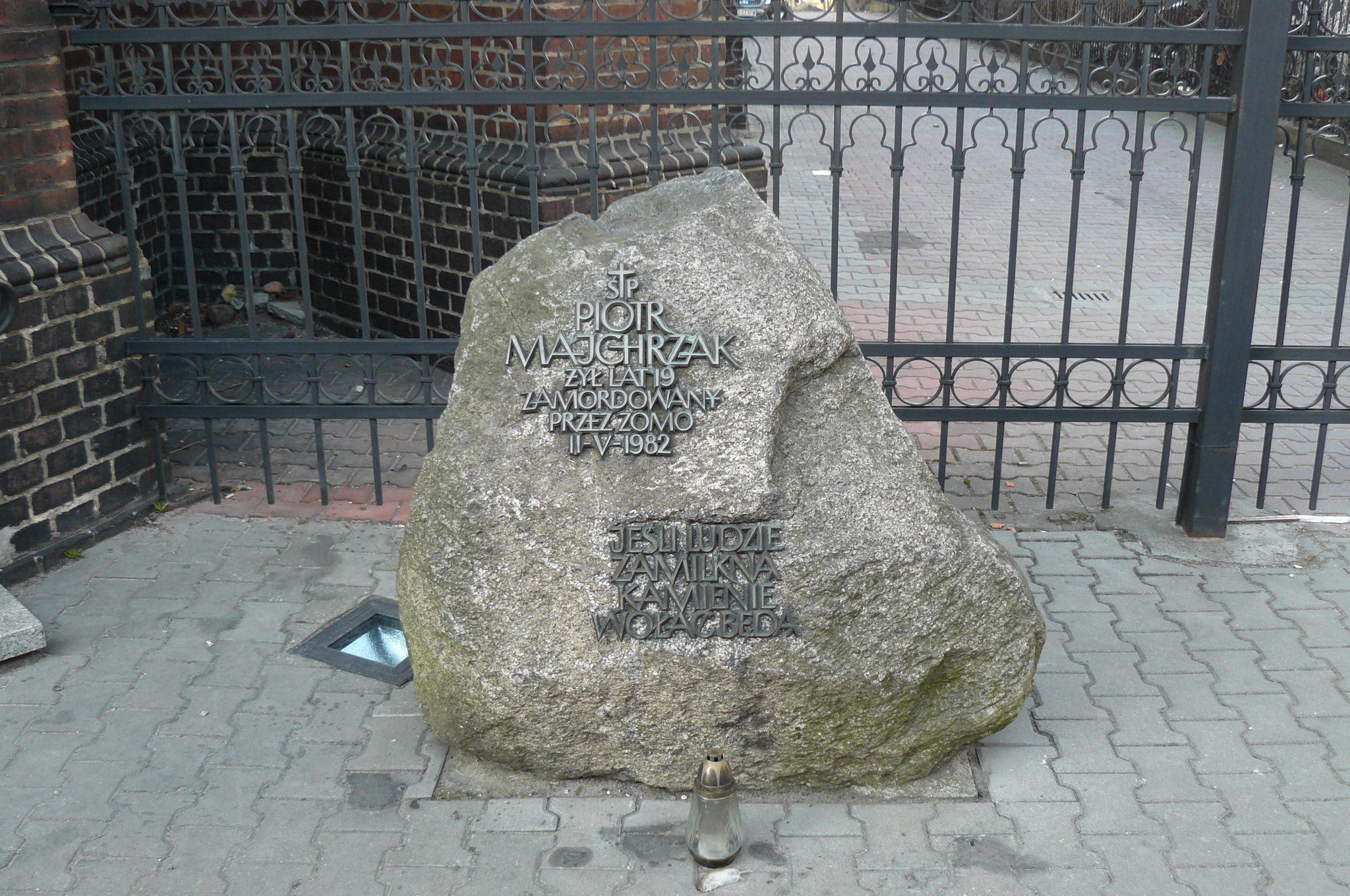 Majchrzak Erratic, Poznan.